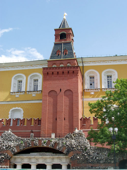 Moscow, the Kremlin. Srednyaya Arsenalnaya Tower.